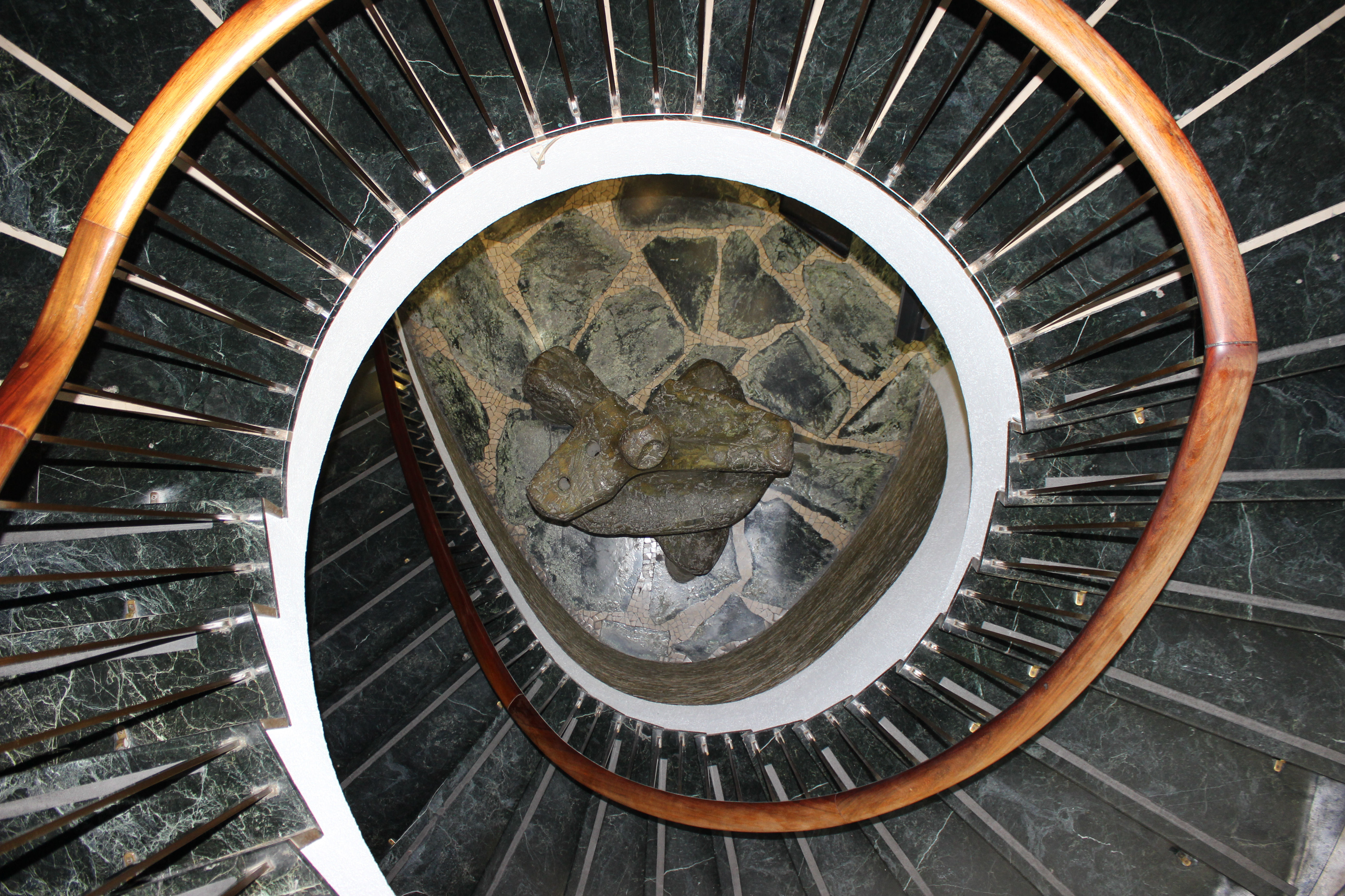 Author: Jorge Oteiza